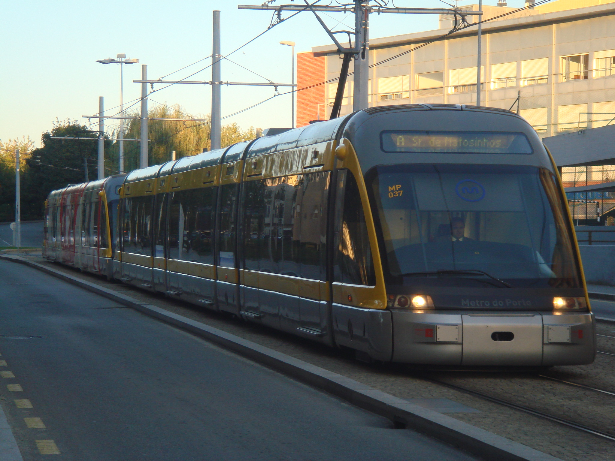 MP037VascodaGama